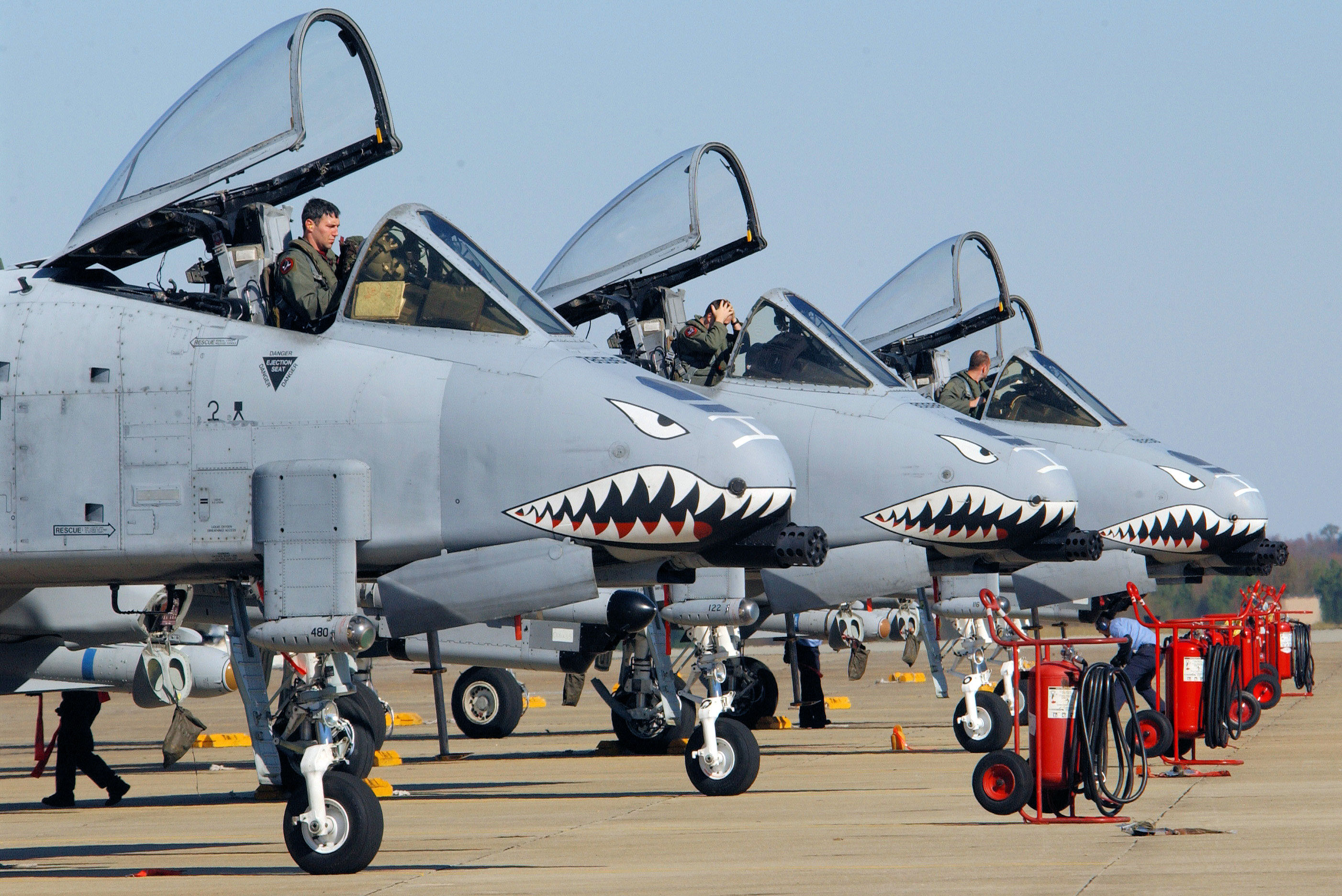 A-10s of the 23d Fighter Group shut their engines off after a mission in support of Operation Dynamic Weasel. Pope AFB, North Carolina.